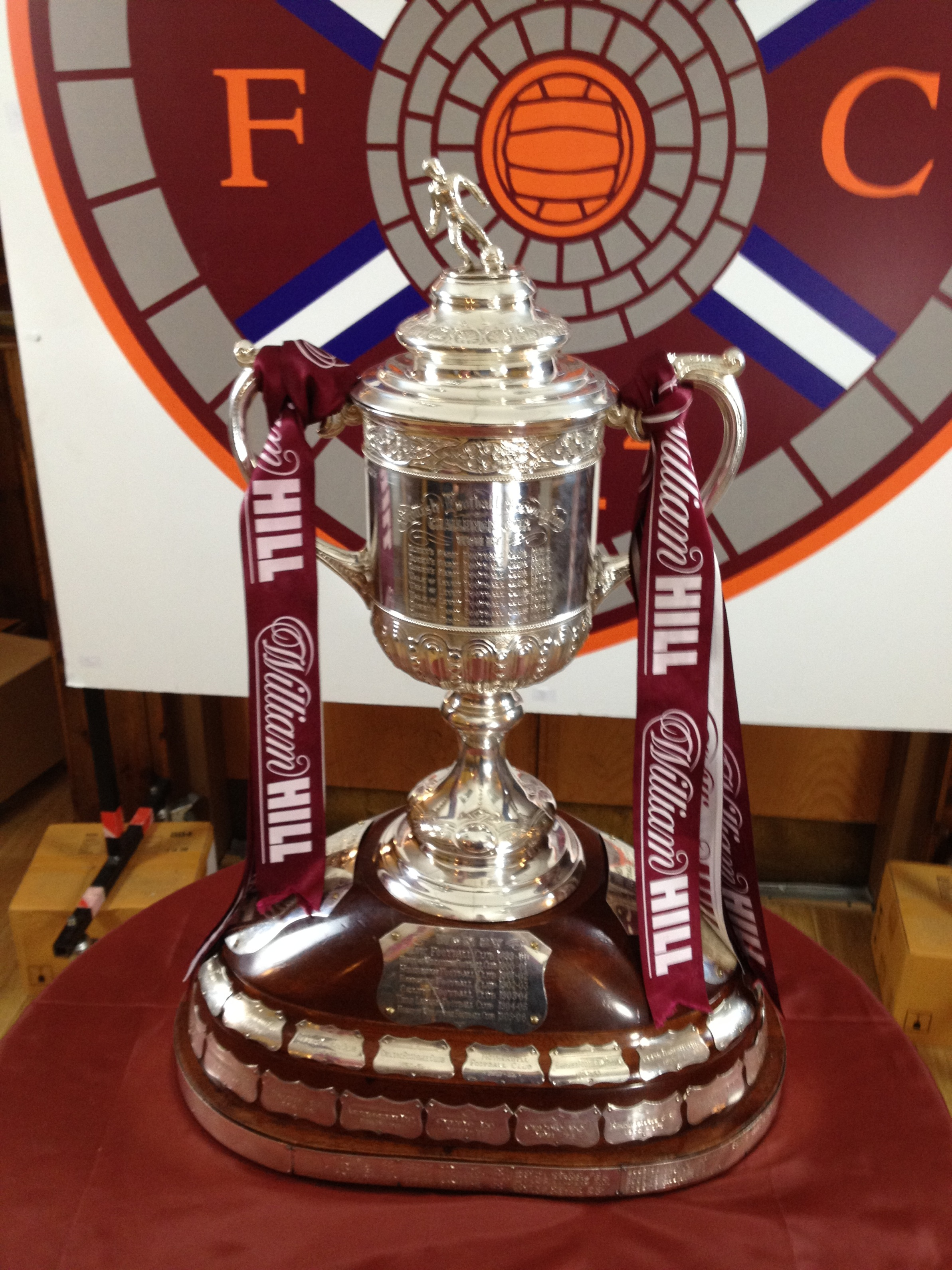 Photo of the Scottish Cup in Heart of Midlothian Colours Following 2012 Win